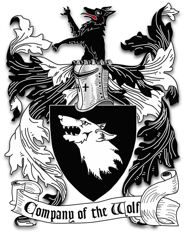 Armorial achievement, helmet, mantling and crest of the Company of the Wolf